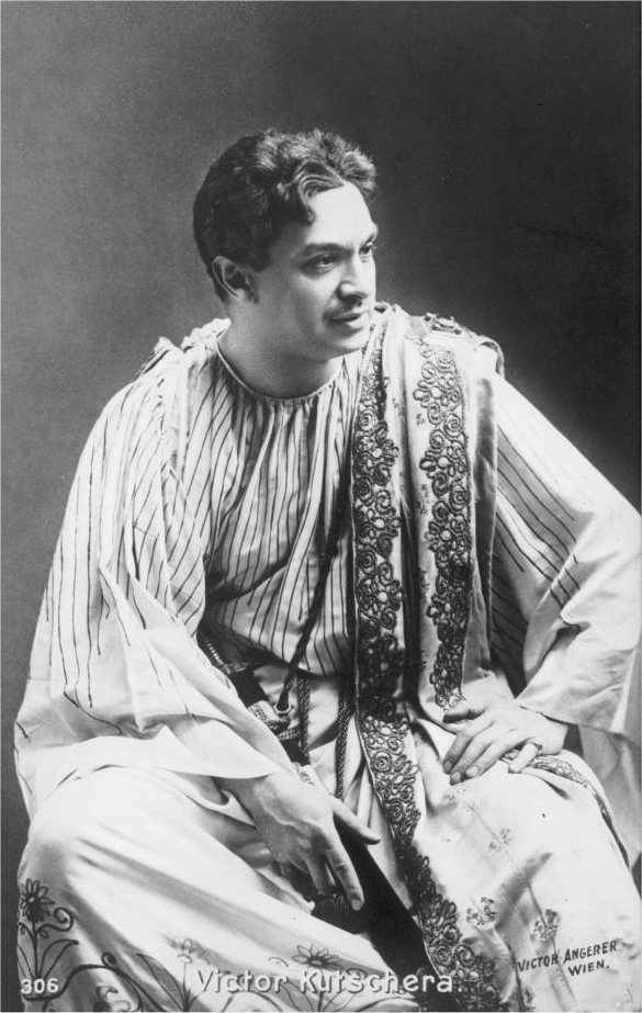 Victor Kutschera, austrian theatre and film actor and theatre director